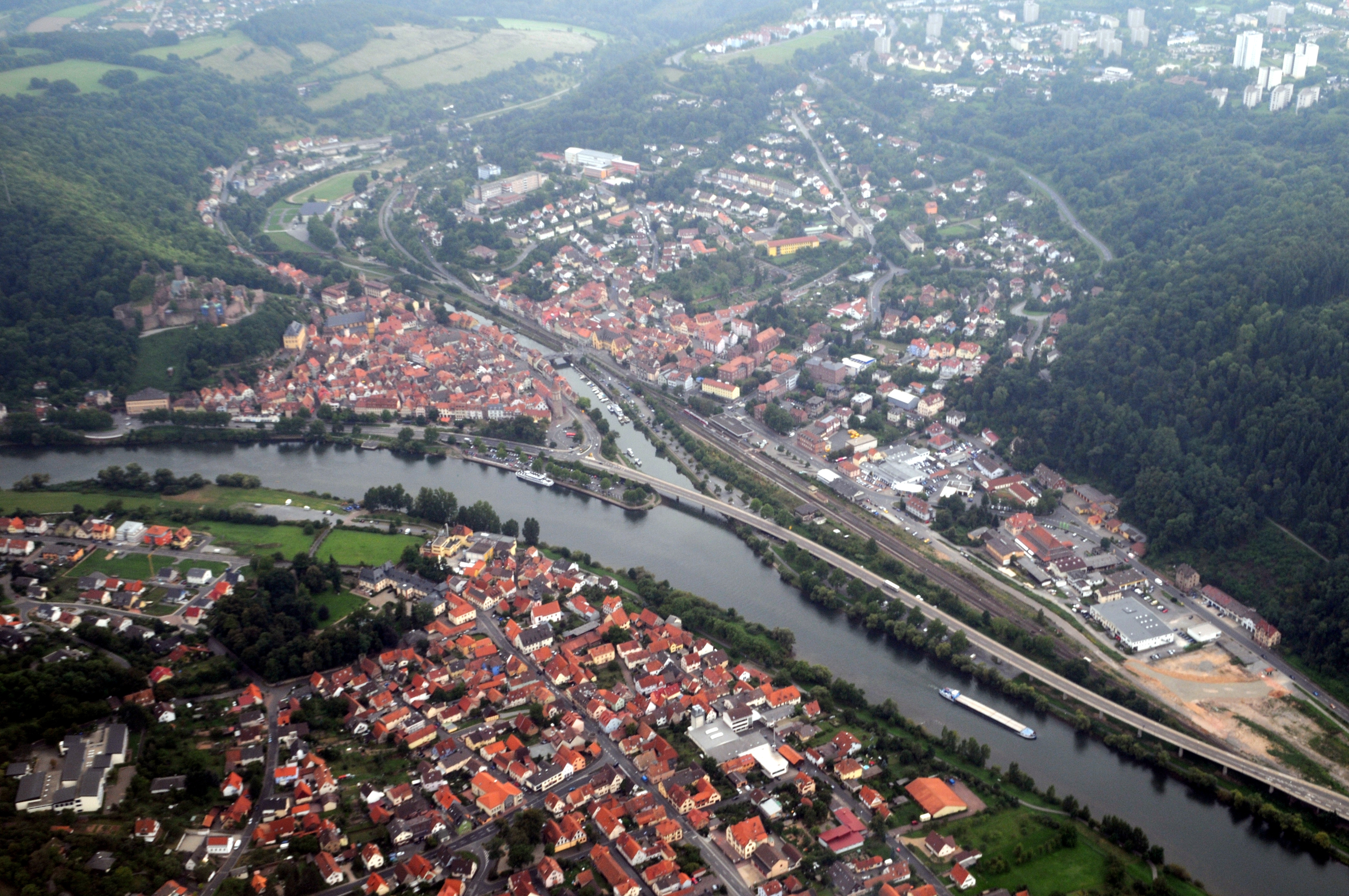 Kreuzwertheim, Wertheim, Bavaria, Germany, aerial photograph